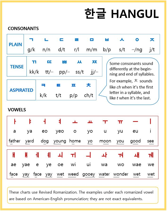 Hangul (Korean) letters and their pronunciations.